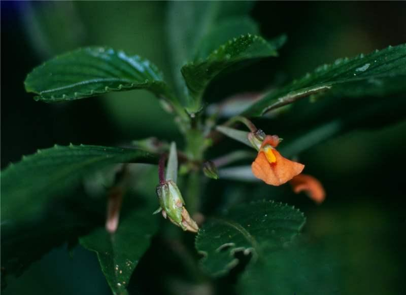 Example of Noisettia orchidiflora